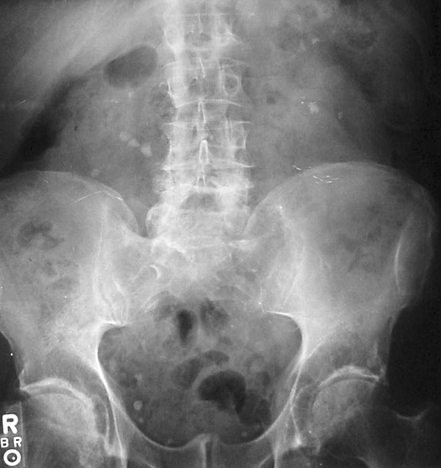 Bilateral kidney stones on abdominal X-ray. Not to be confused with phleboliths seen in the pelvis.